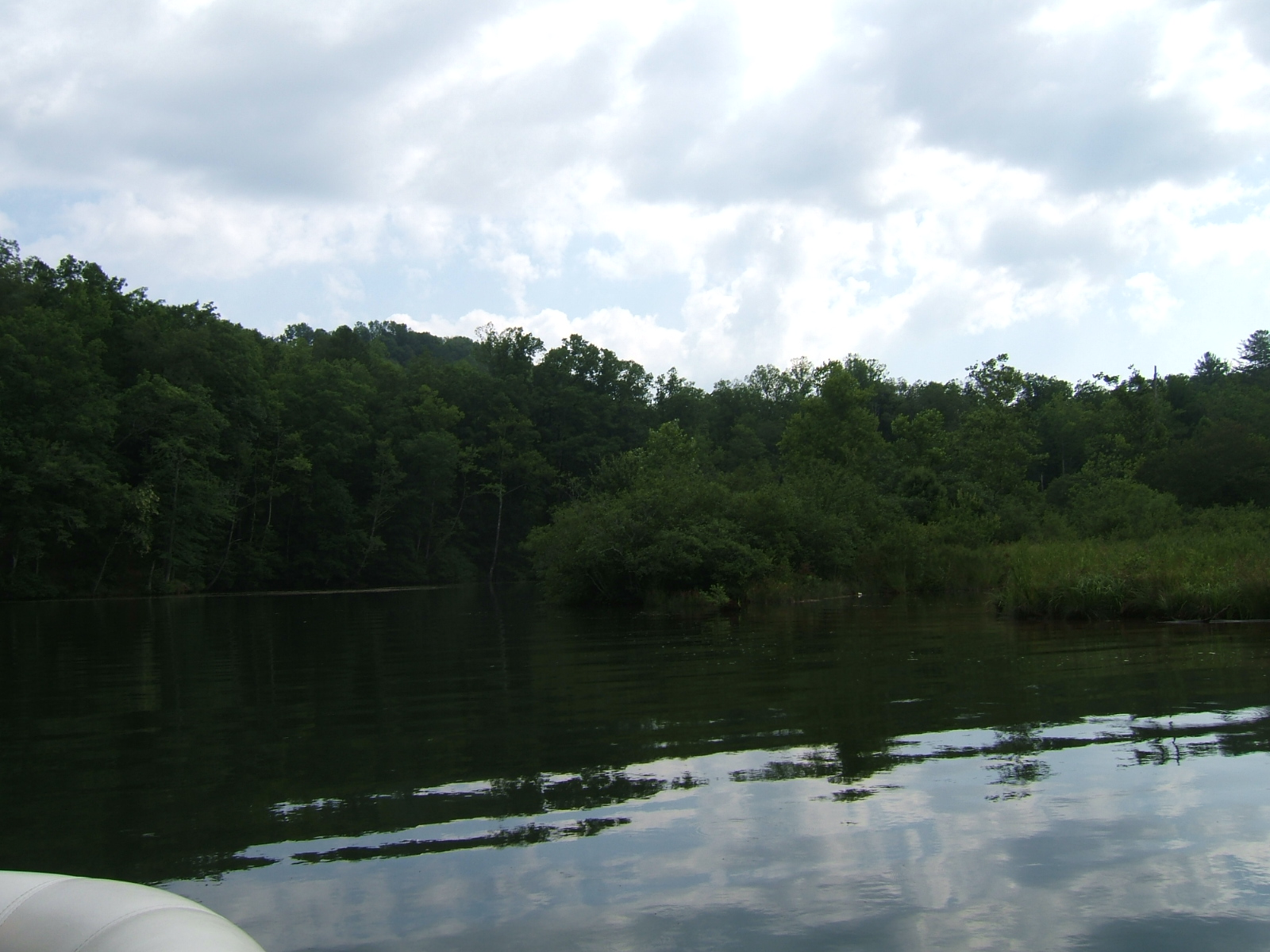 Where Tallulah River and Lake Burton meet